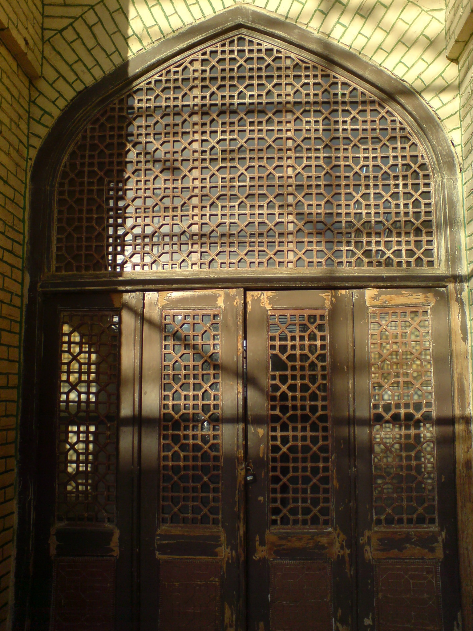 Wooden Door & Window Jameh Mosque of Nishapur